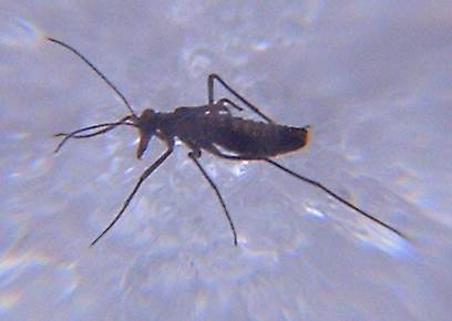 "Boreus hiemalis"